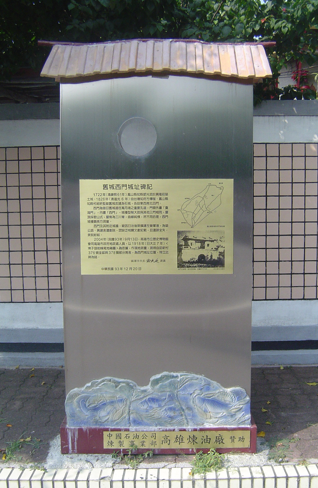 Sign of old west city gate of Fengshan near Kaohsiung, Taiwan. Other city gates of Fengshan: south gate, east gate, north gate.